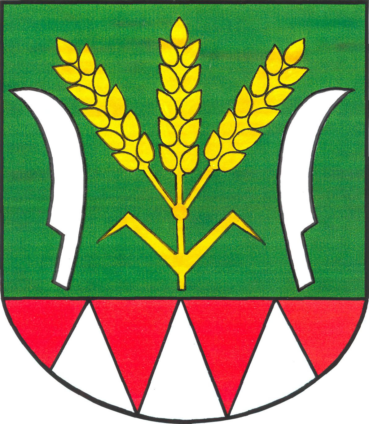 Municipal coat of arms of Želeč village, Prostějov District, Czech Republic.